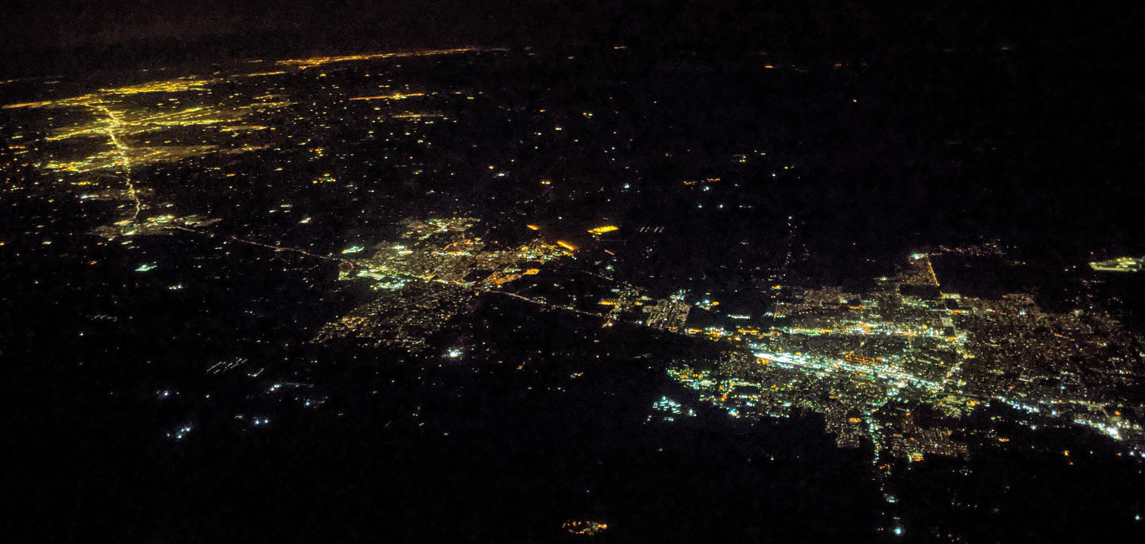 Night aerial view of Merced, Atwater, Livingston, Turlock, Modesto, and Manteca, California